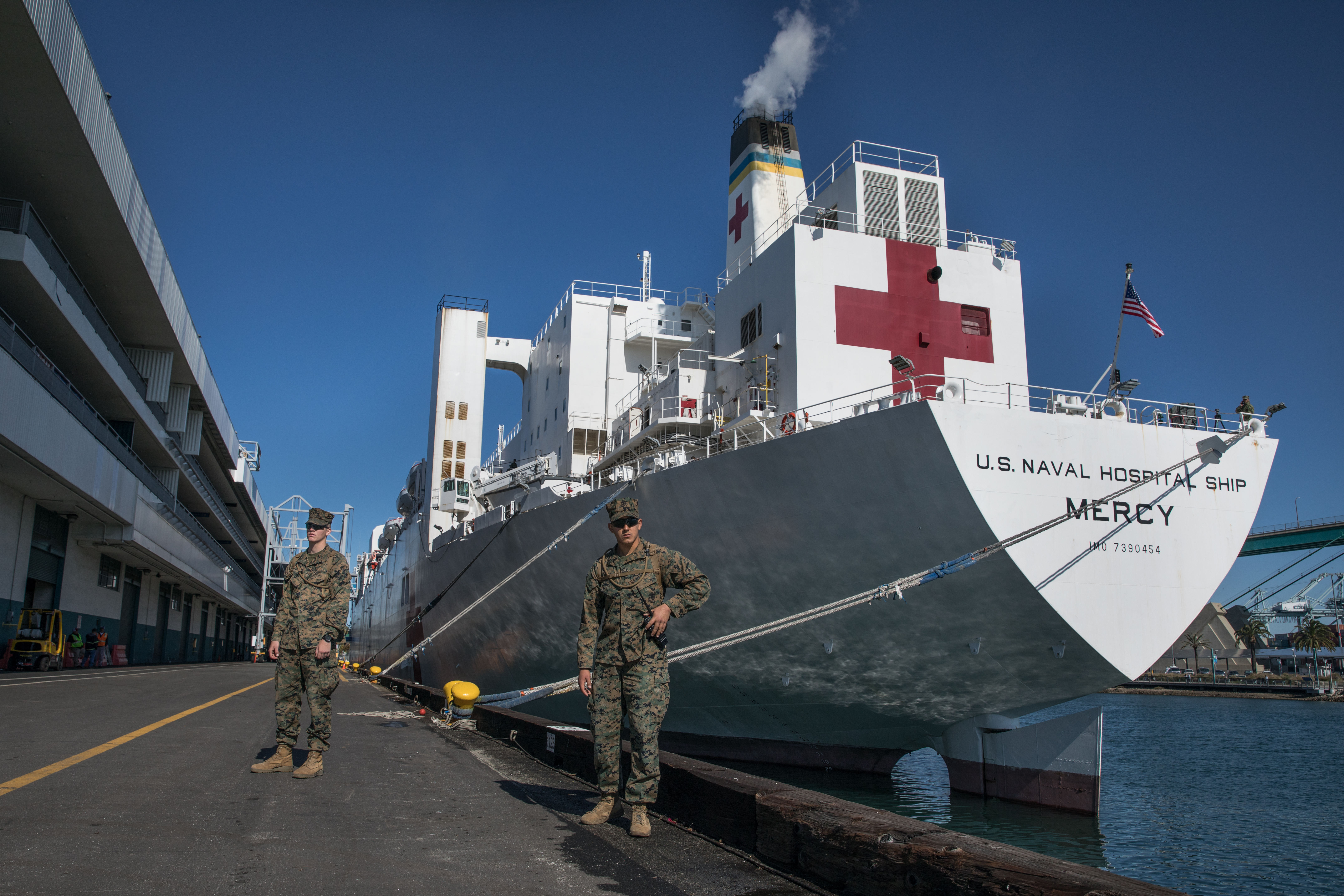 LOS ANGELES (March 27, 2020) U.S. Marine Corps Pvt. Noah Crow, left, and Pfc. Arnoldo RomeroVelazco, both riflemen with 1st Battalion, 4th Marine Regiment, 1st Marine Division, post security to secure the Military Sealift Command hospital ship USNS Mercy (T-AH 19) in Los Angeles, California, March 27. The hospital ship USNS Mercy (T-AH 19) deployed in support of the nation’s COVID-19 response efforts, and will serve as a referral hospital for non-COVID-19 patients currently admitted to shore-based hospitals. This allows shore base hospitals to focus their efforts on COVID-19 cases. One of the Department of Defense’s missions is Defense Support of Civil Authorities. DOD is supporting the Federal Emergency Management Agency, the lead federal agency, as well as state, local and public health authorities in helping protect the health and safety of the American people.